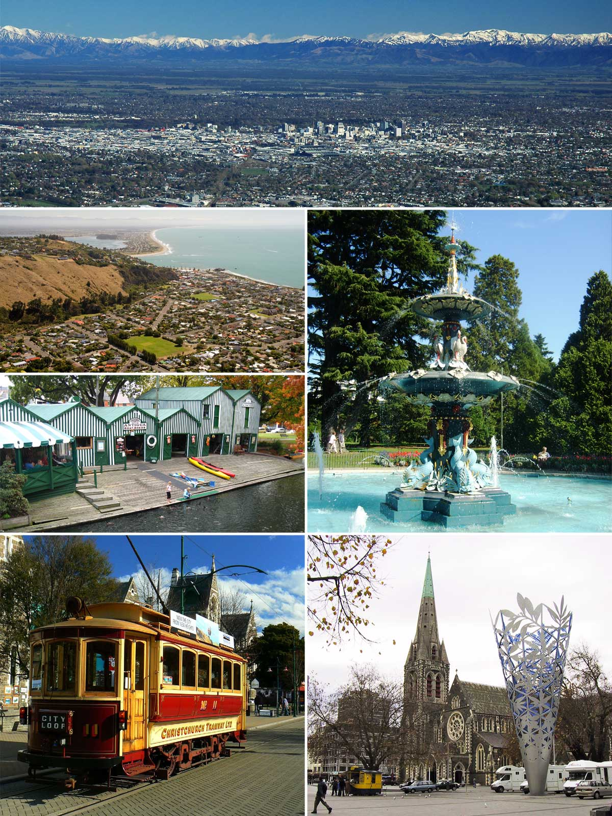 Clockwise from top Christchuch skyline Peacock Fountain Christchurch Cathedral Christchurch Tram Antigua boat sheds Sumner to Pegasus Bay